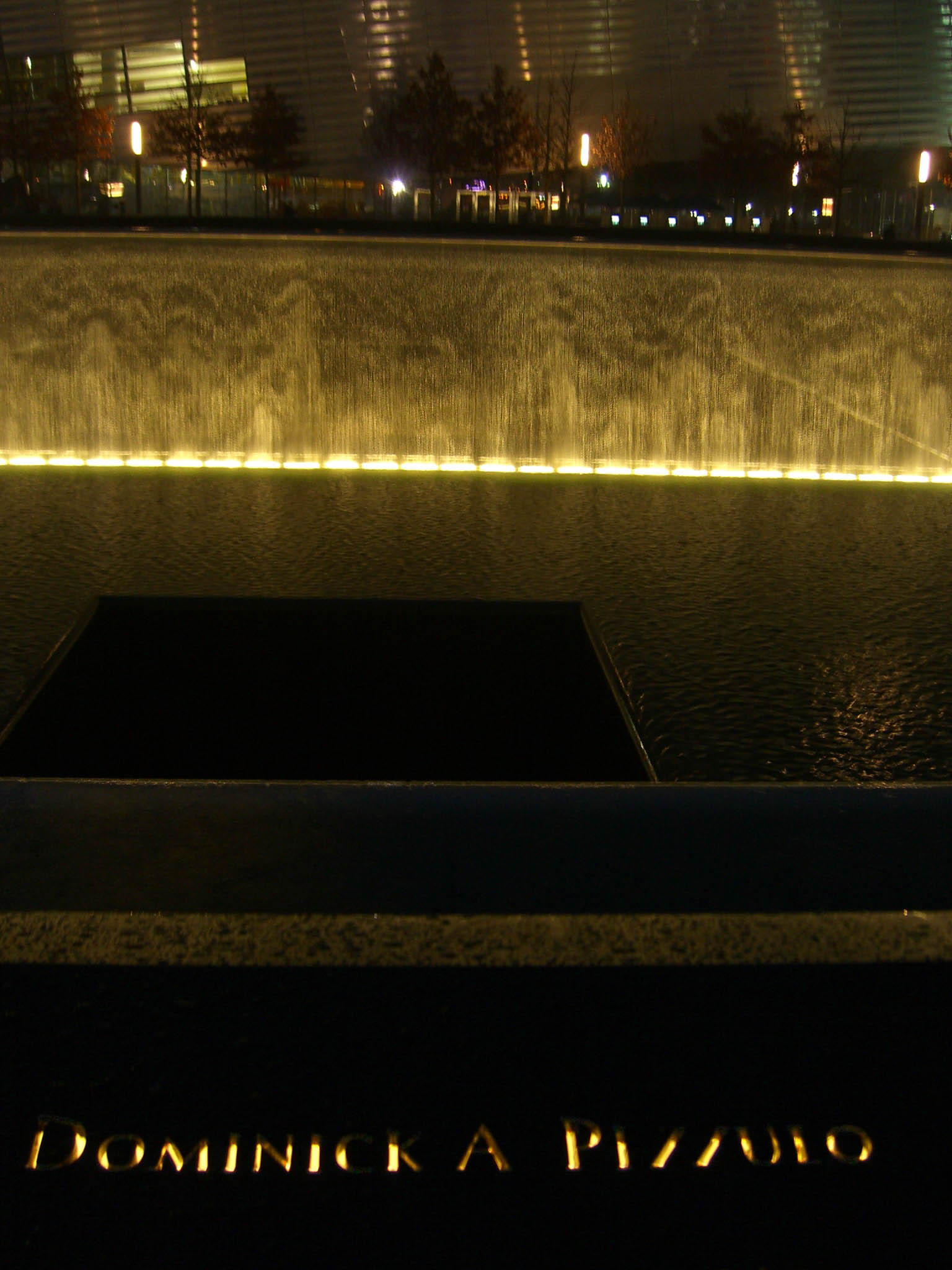 The name of Dominick Pezzulo is seen among those of other first responders inscribed on bronze panel S-29 of the South Pool of the National September 11 Memorial in Manhattan, on December 6, 2011. This photo was created by Luigi Novi. If you have any questions, you can contact me by sending me an email or User talk:Nightscream